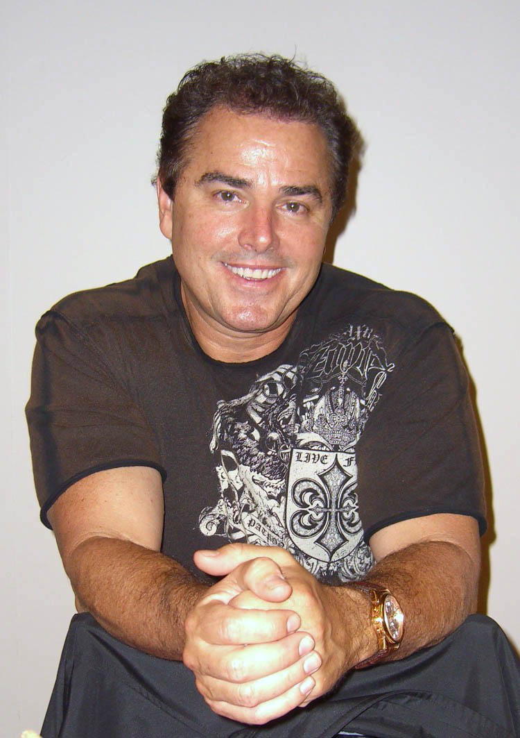 Actor Christopher Knight at the Big Apple Convention in Manhattan, October 1, 2010. Photo by Luigi Novi. This photo may be used, modified and published for any purpose, only if a easily visible credit to the photographer is placed near the photo in each instance in which it is used. (See licensing information below.) Publication of this photo without this proper attribution constitutes copyright infringement. For more information on my photos, you can contact me here.